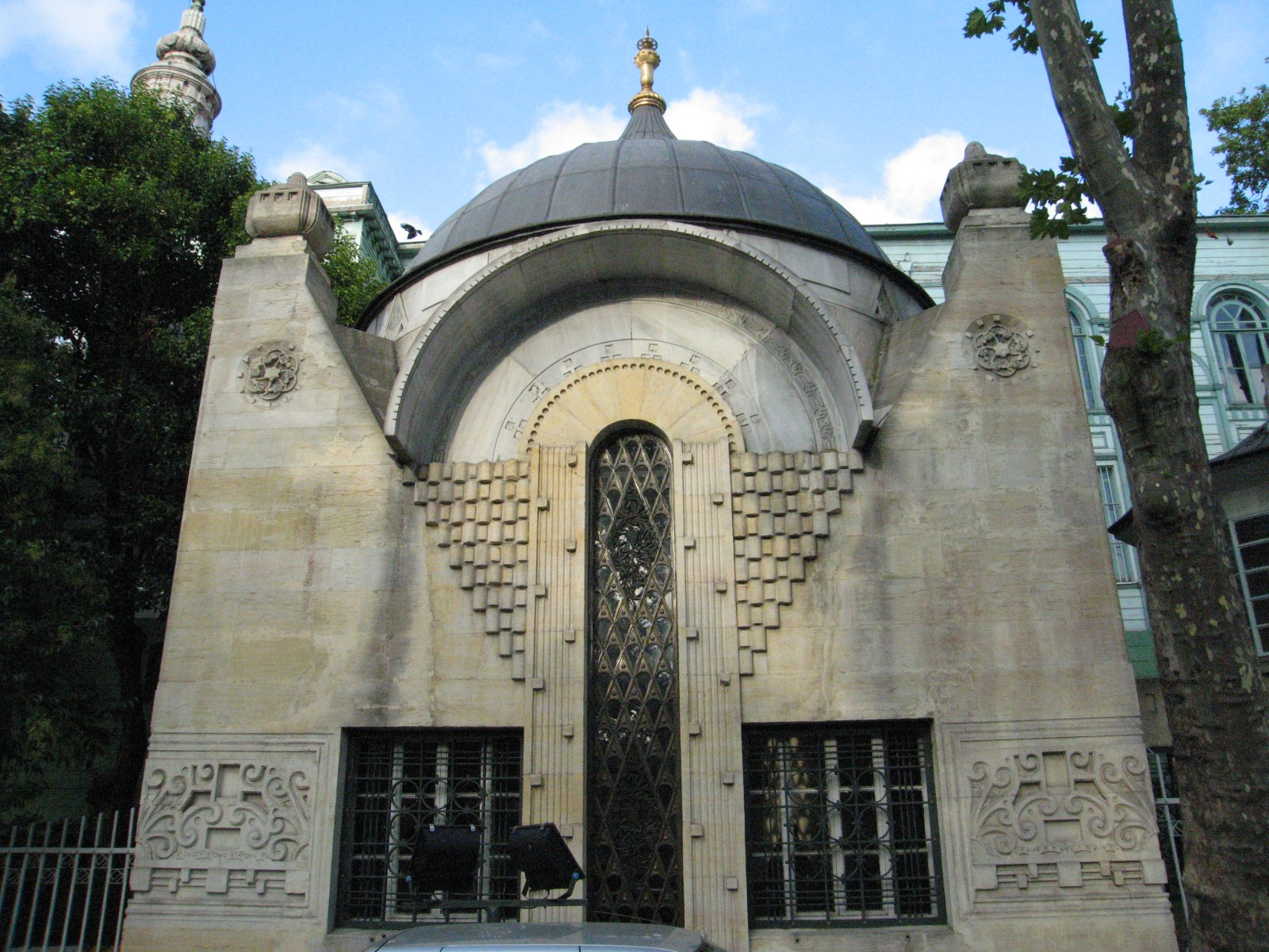 Turbe of Sheikh Zafir Effendi located in Yıldız neighbourhood of Beşiktaş district in Istanbul, Turkey by architect Raimondo Tommaso D'Aronco